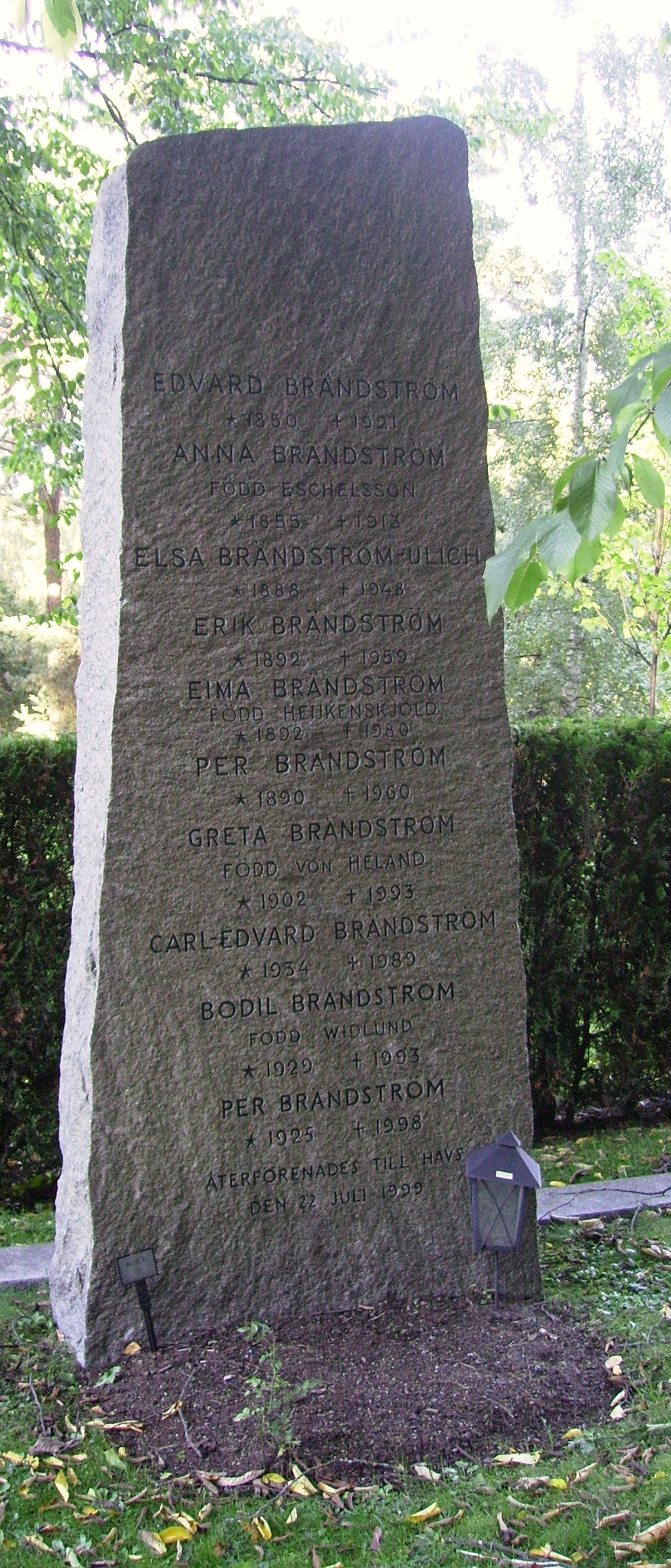 Picture of Elsa Brändströms grave at Norra begravningsplatsen in Solna